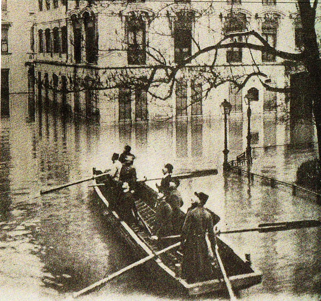 Flood of Doubs river in 1910, in Besançon.